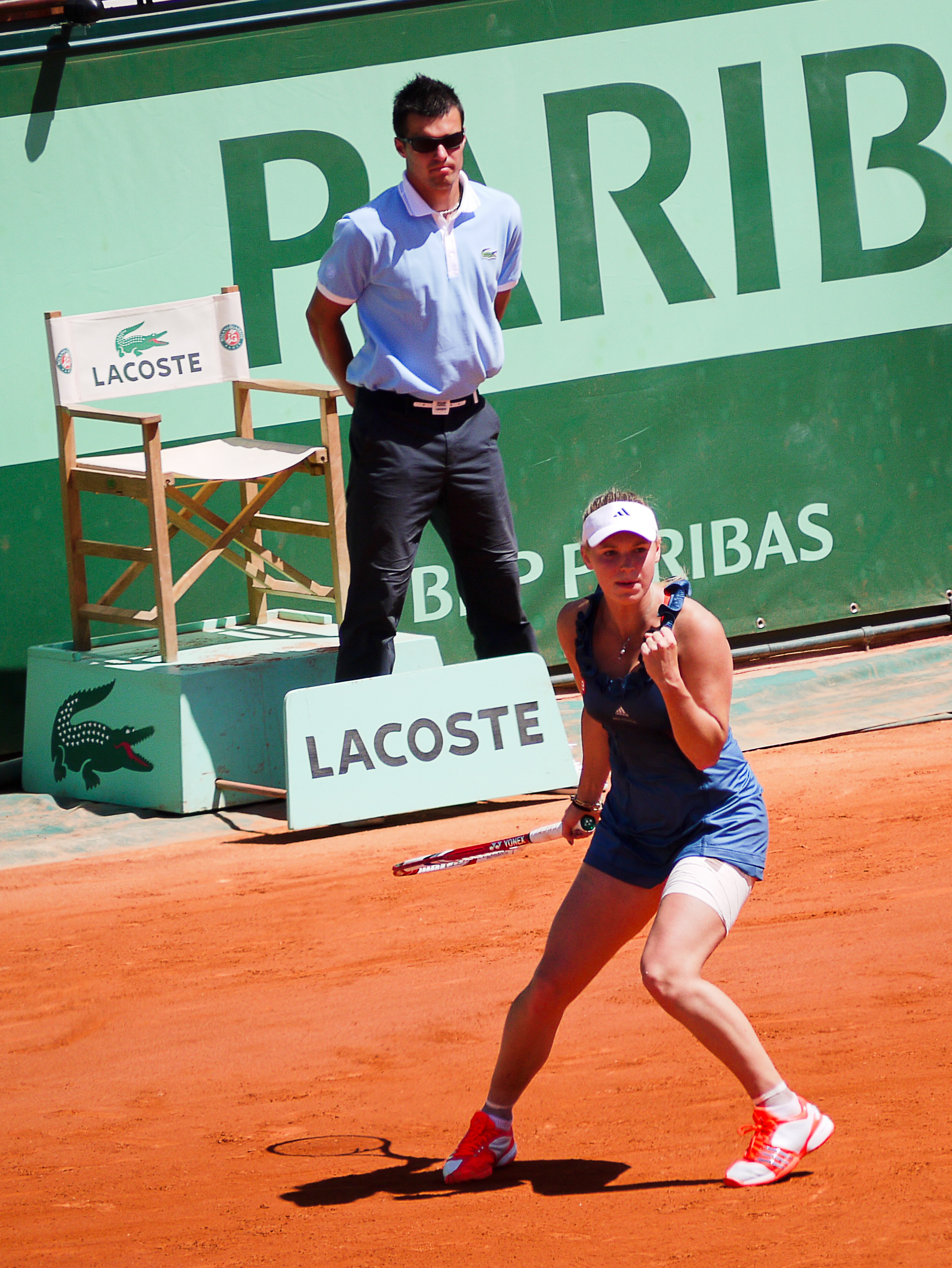 Caroline Wozniacki (DEN) def. Aleksandra Wozniak (CAN) Roland Garros 2011 - mercredi 25 mai - 2ème tour - Court Philippe Chatrier